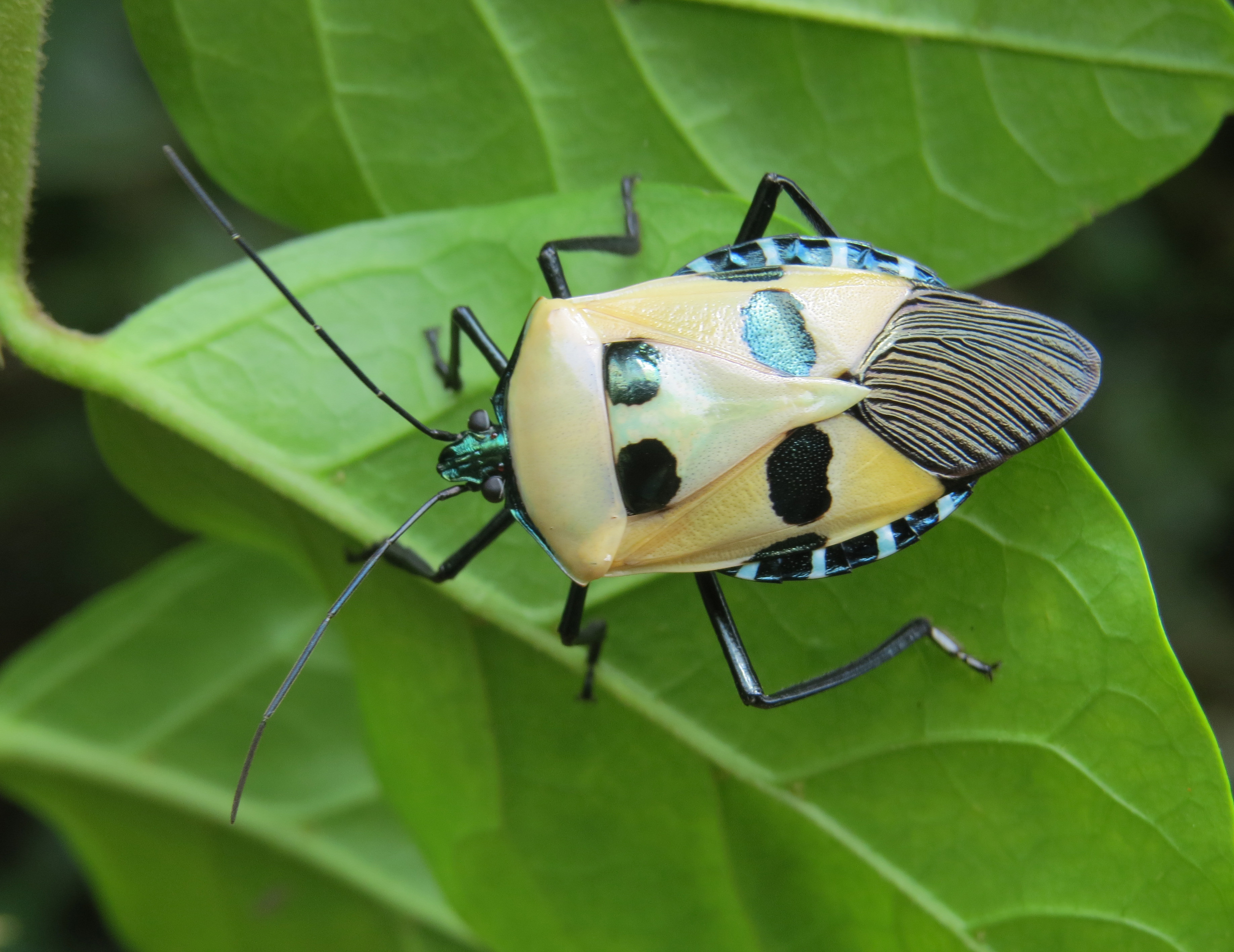 Catacanthus incarnatus